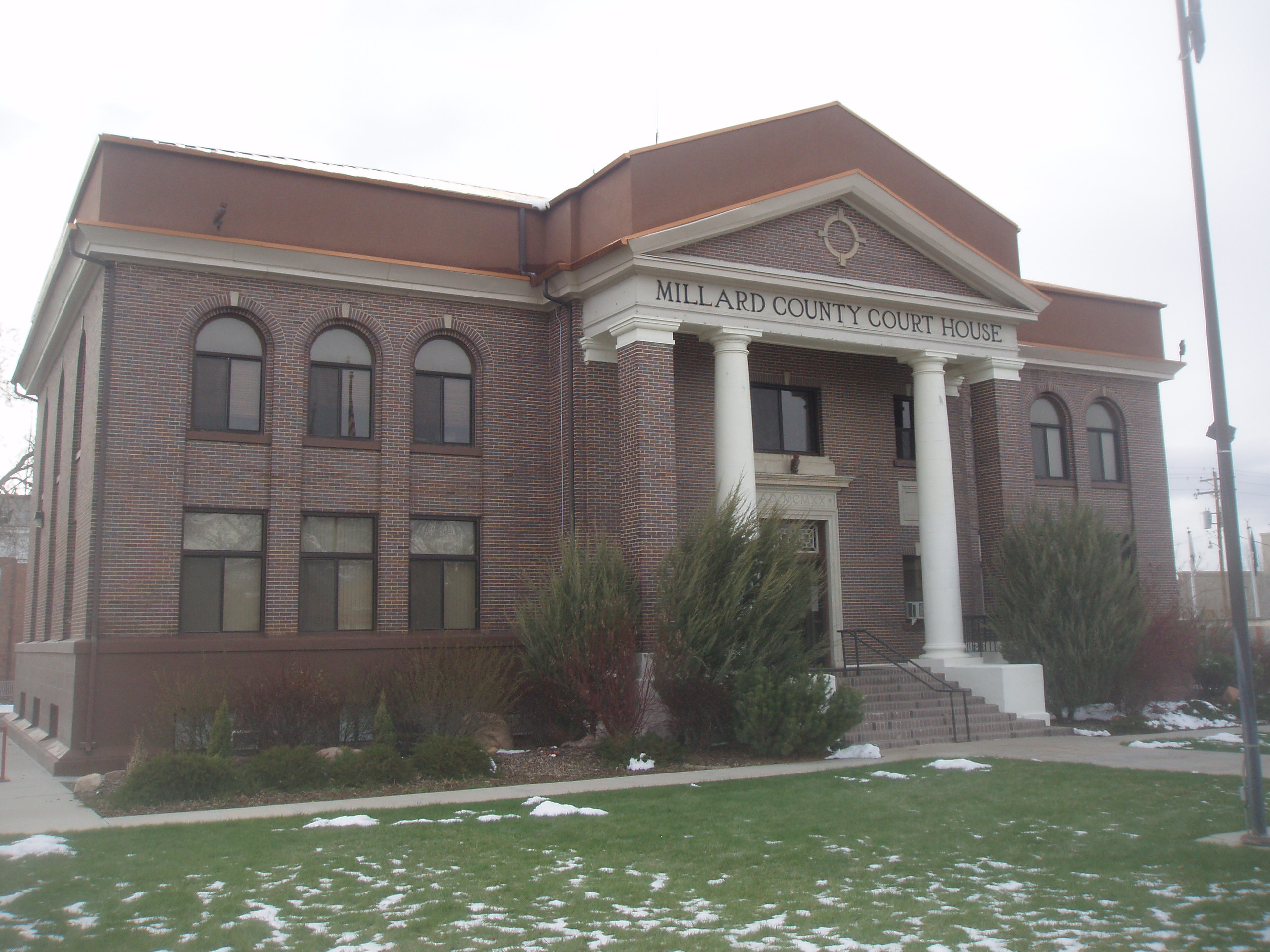 The former Millard County Courthouse, a historic building in Fillmore, Utah, United States.